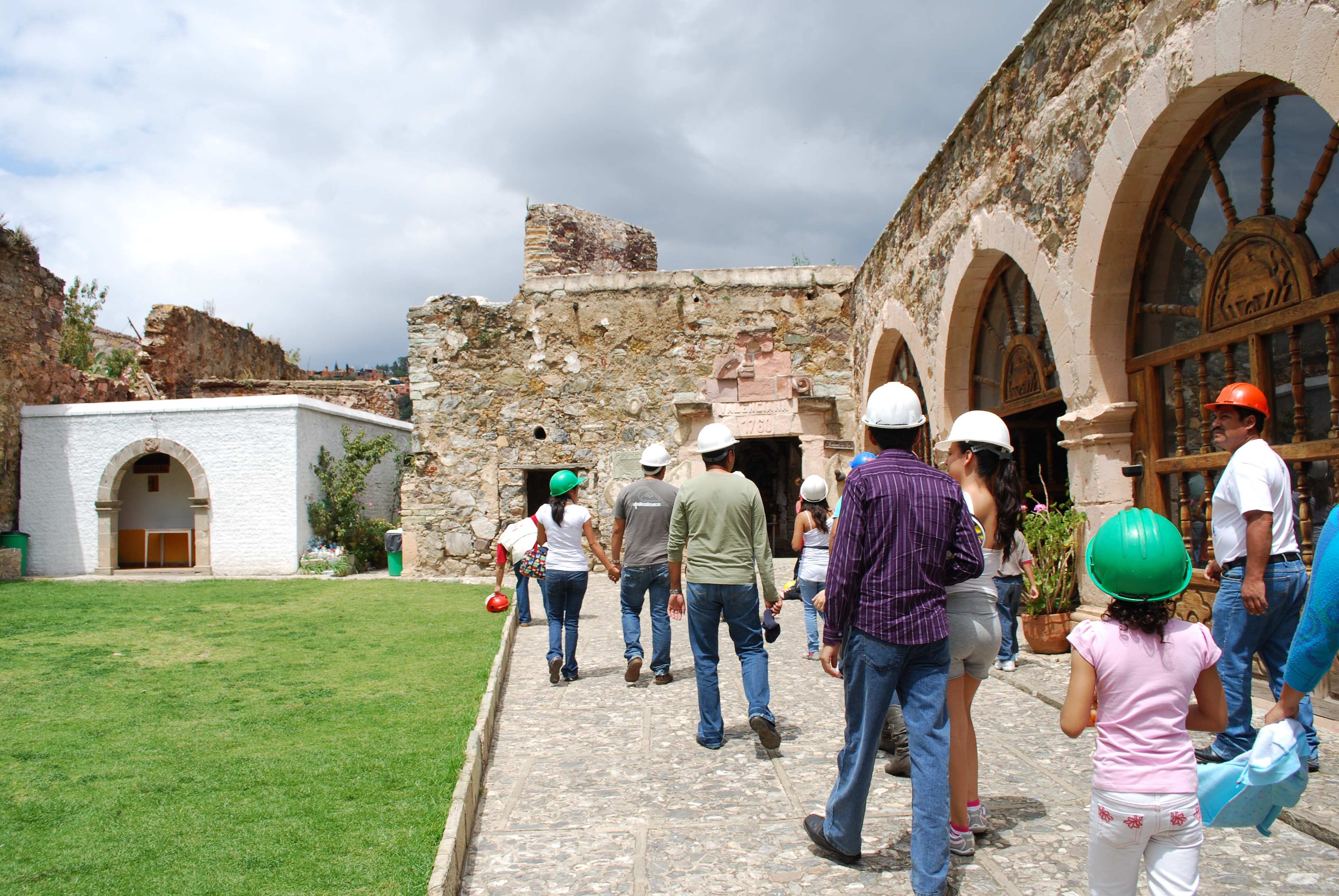 Tour in progress at the Bocamina mine in Guanajuato, Mexico